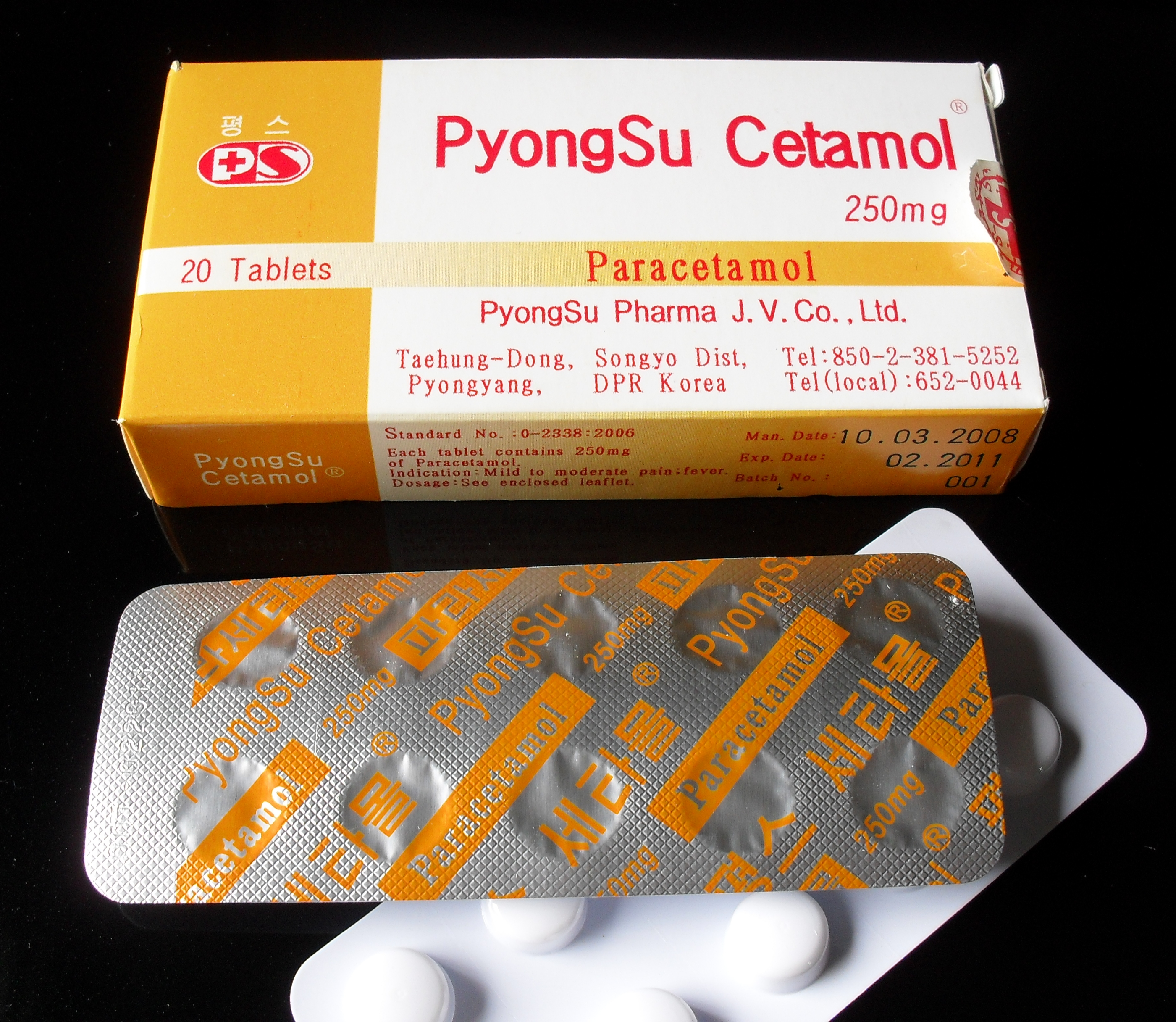 Generic paracetamol dprk